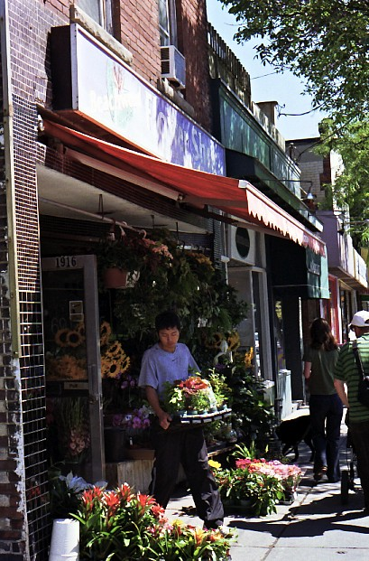 Asahi Pentax Model K, 55f1.8 Auto Takumar, Suji Superia 200 film taken in the Beach, Toronto. Queen Street.